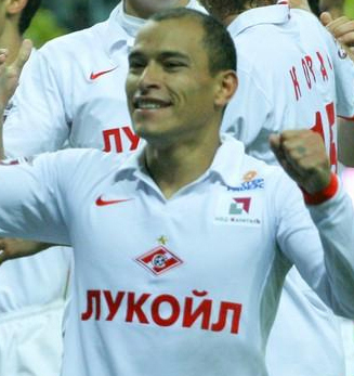 Clemente Rodriguez, Argentinian footballer.